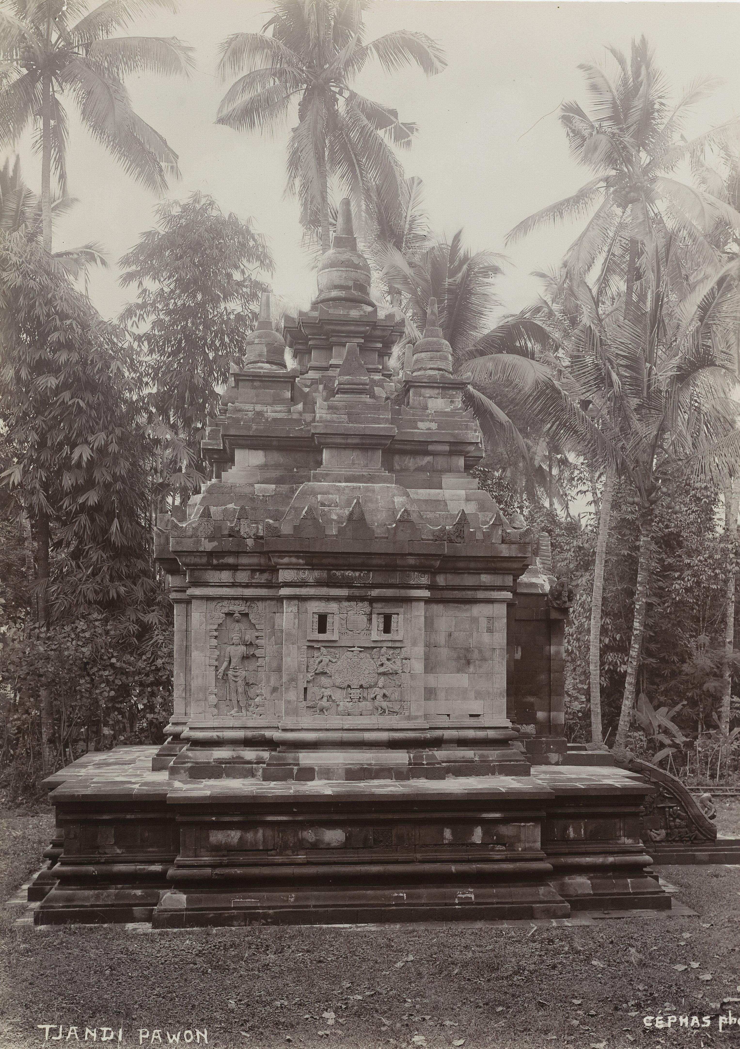 Tjandi Pawon